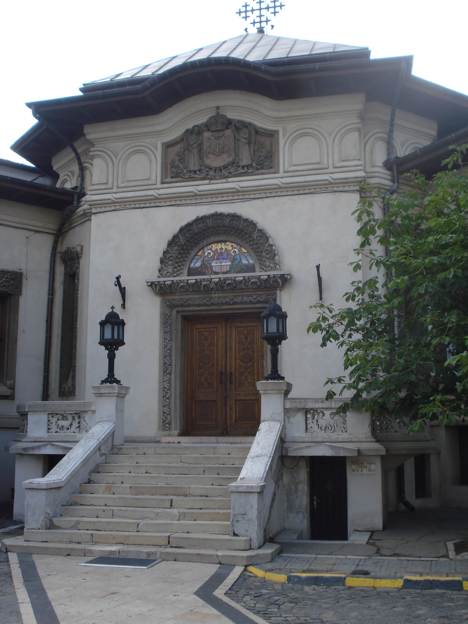 Patriarchal Palace, Bucharest